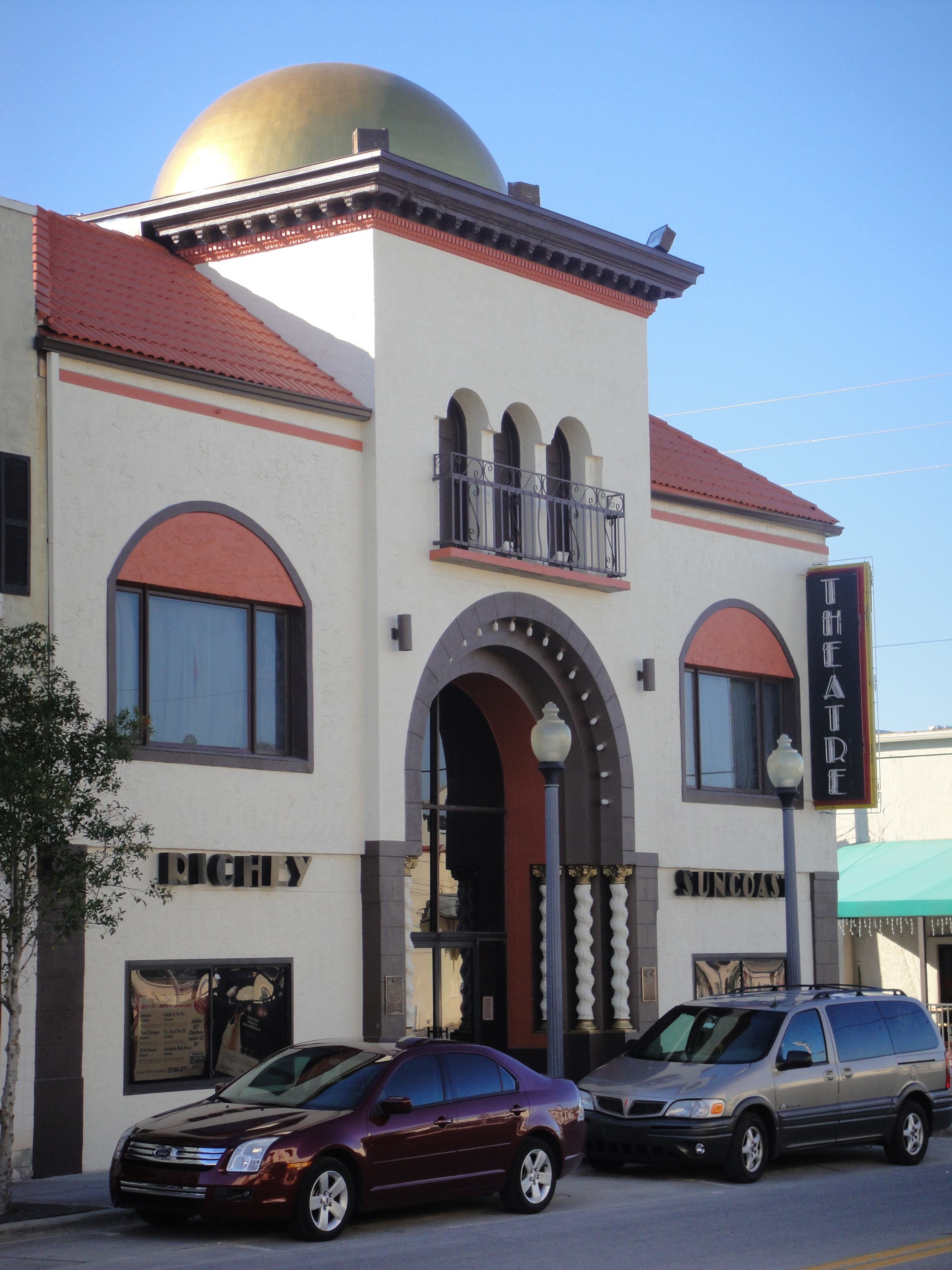 Meighan Theatre in New Port Richey. November, 2010.